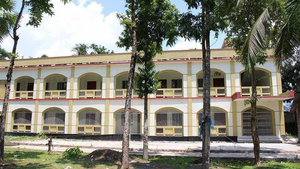 New Building of Gunabati Degree College